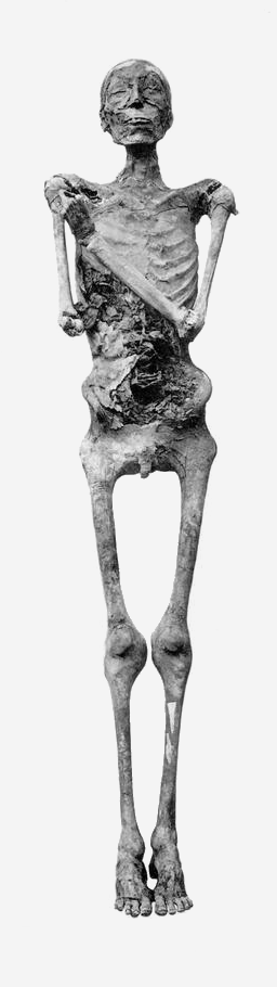 Mummy of pharaoh Seti II.